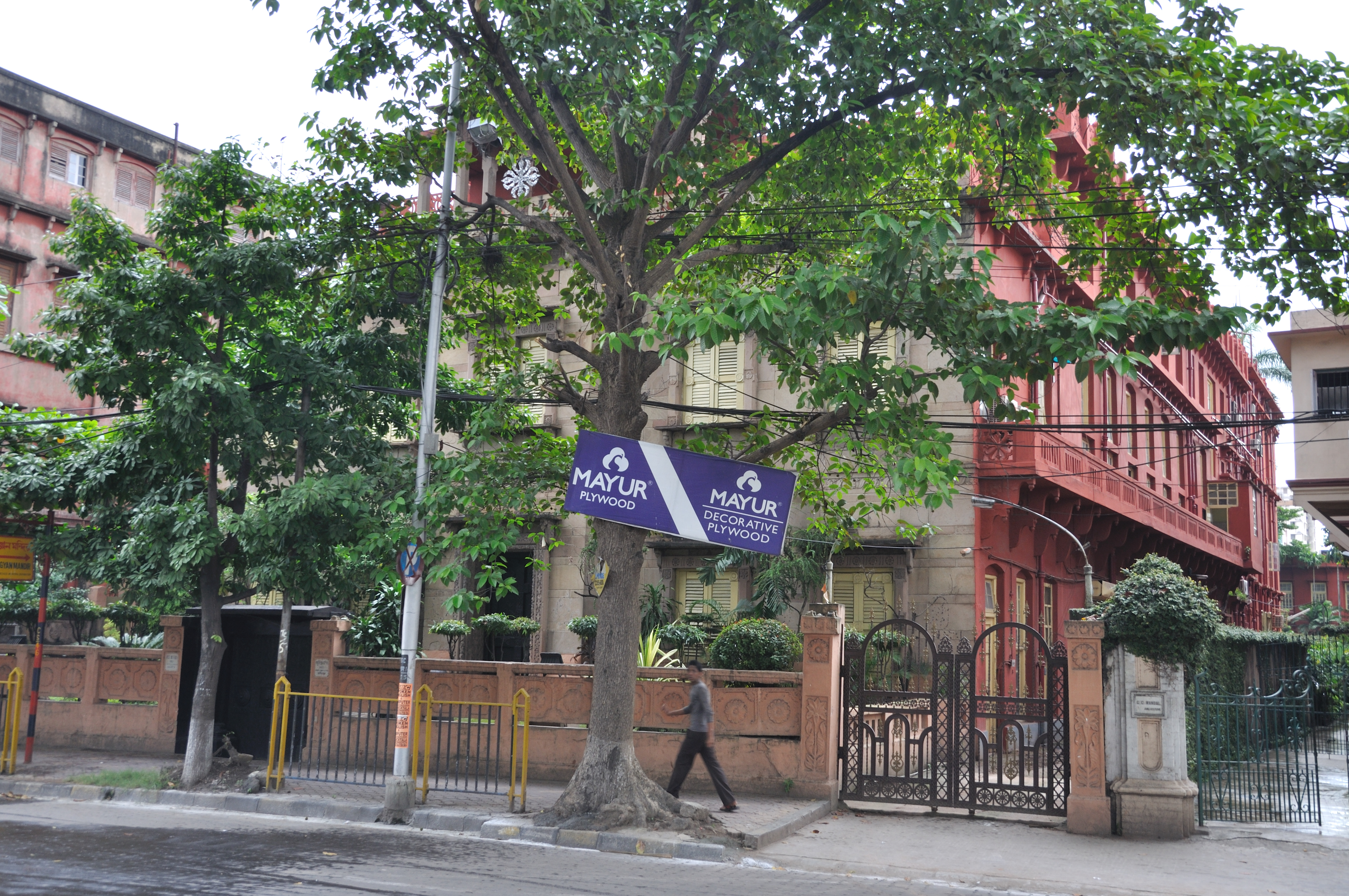 Bose Institute at Kolkata, is world-class research institute in the fields of Physics, Chemistry, Botany, Microbiology, Biochemistry, Biophysics, Plant Molecular & Cellular Genetics, Animal physiology, Immunotechnology and Environmental science. The institute was established in 1917 by Acharya Jagdish Chandra Bose.